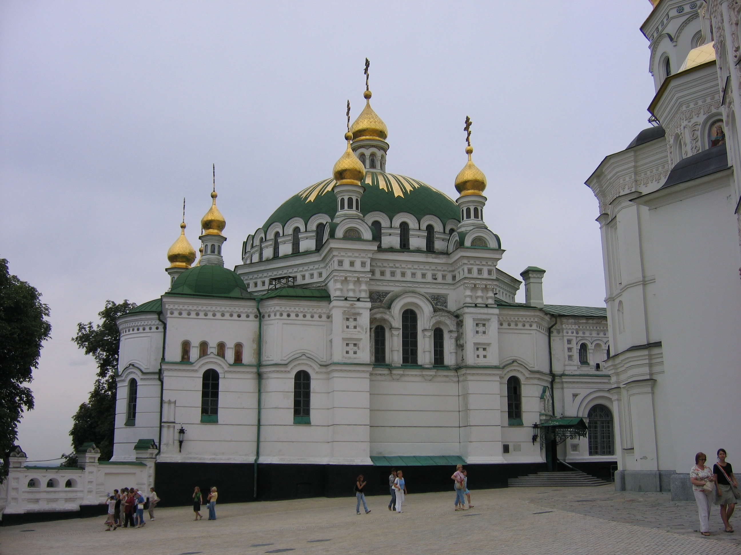 Kiev Pechersk Lavra (Kiev, Ukraine)